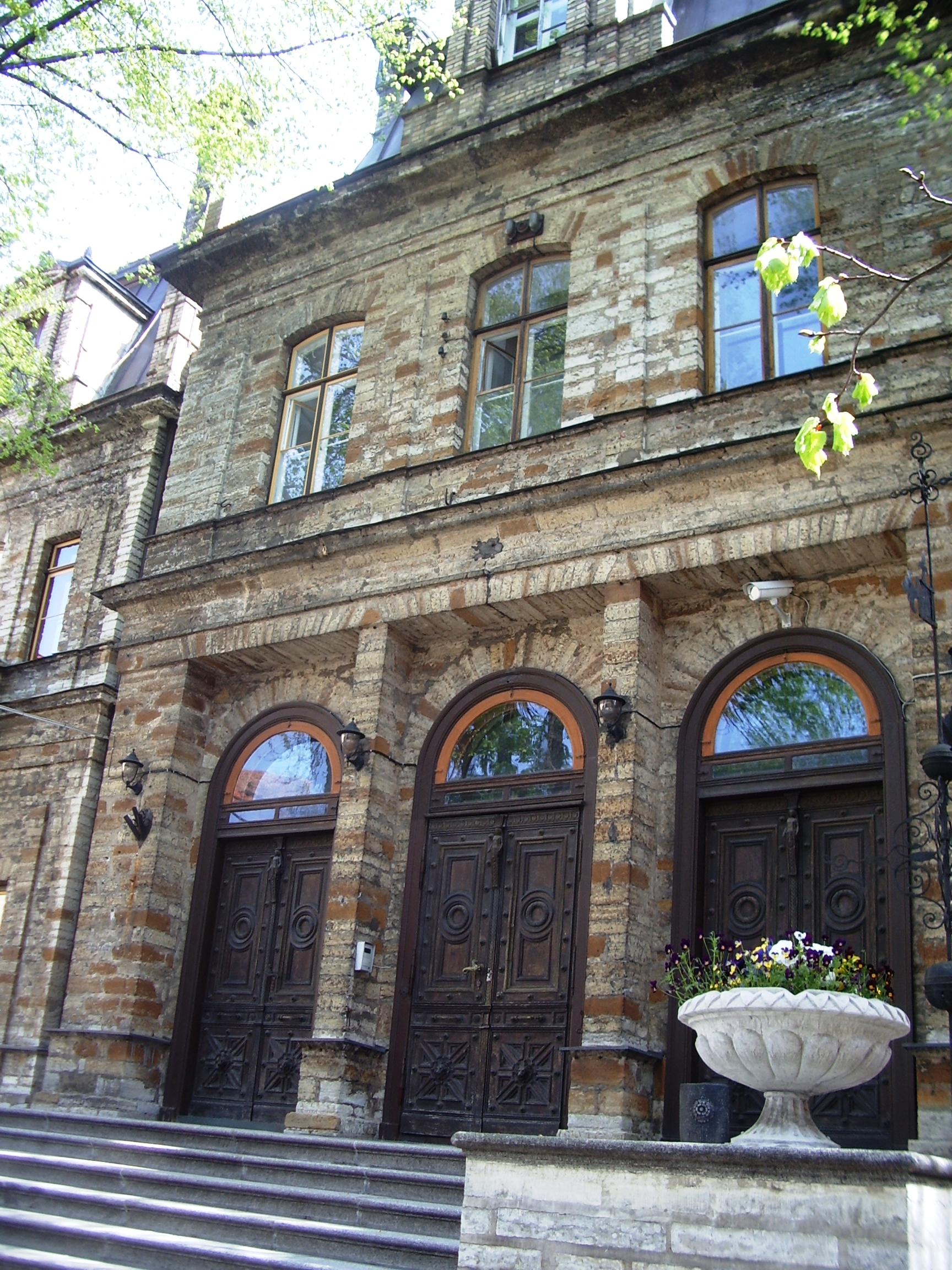 House of Estonian Academy of Sciences, Kohtu 6 in Tallinn. Built 1865-1868, architect Martin Gropius.